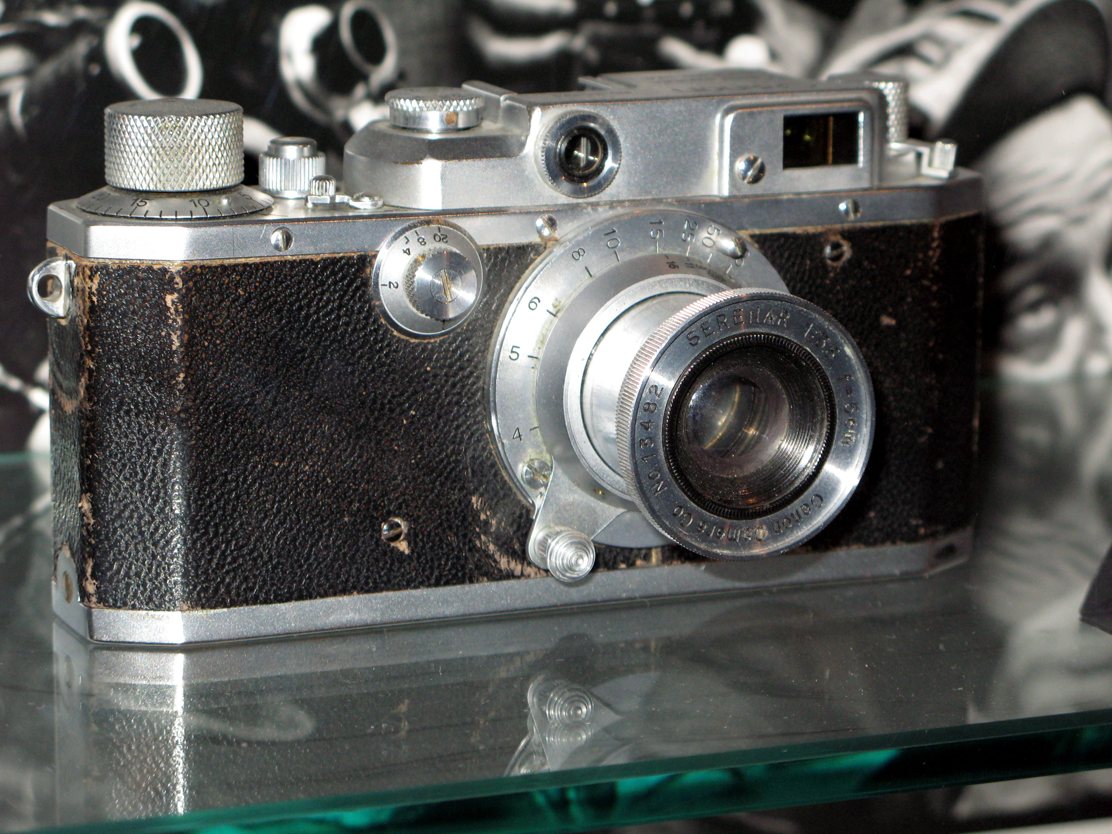 Canon IIB on diplay at the Camera Museum of Vevey